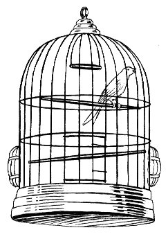 line art drawing of cage.